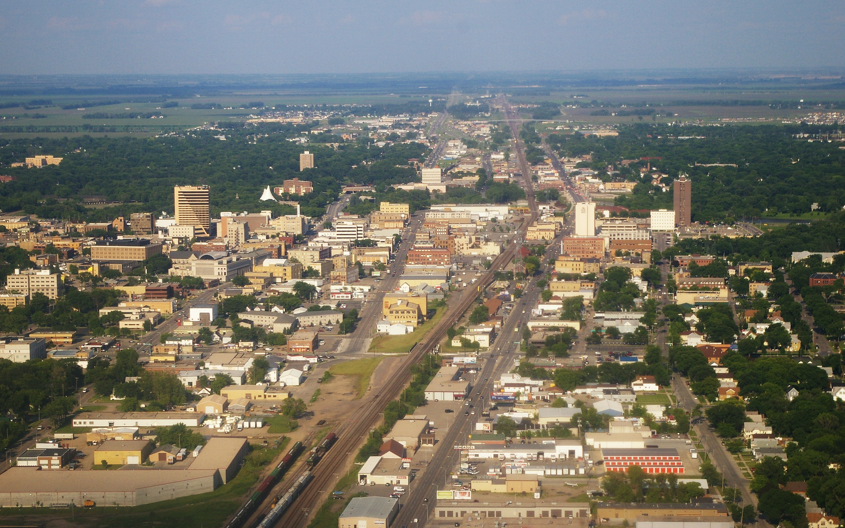 Overlooking downtown Fargo, North Dakota, USA, looking east.